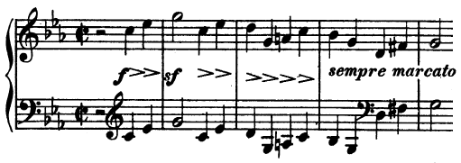 Piano Quintet Schumann: Allegro ma non troppo (part 4) - Opening